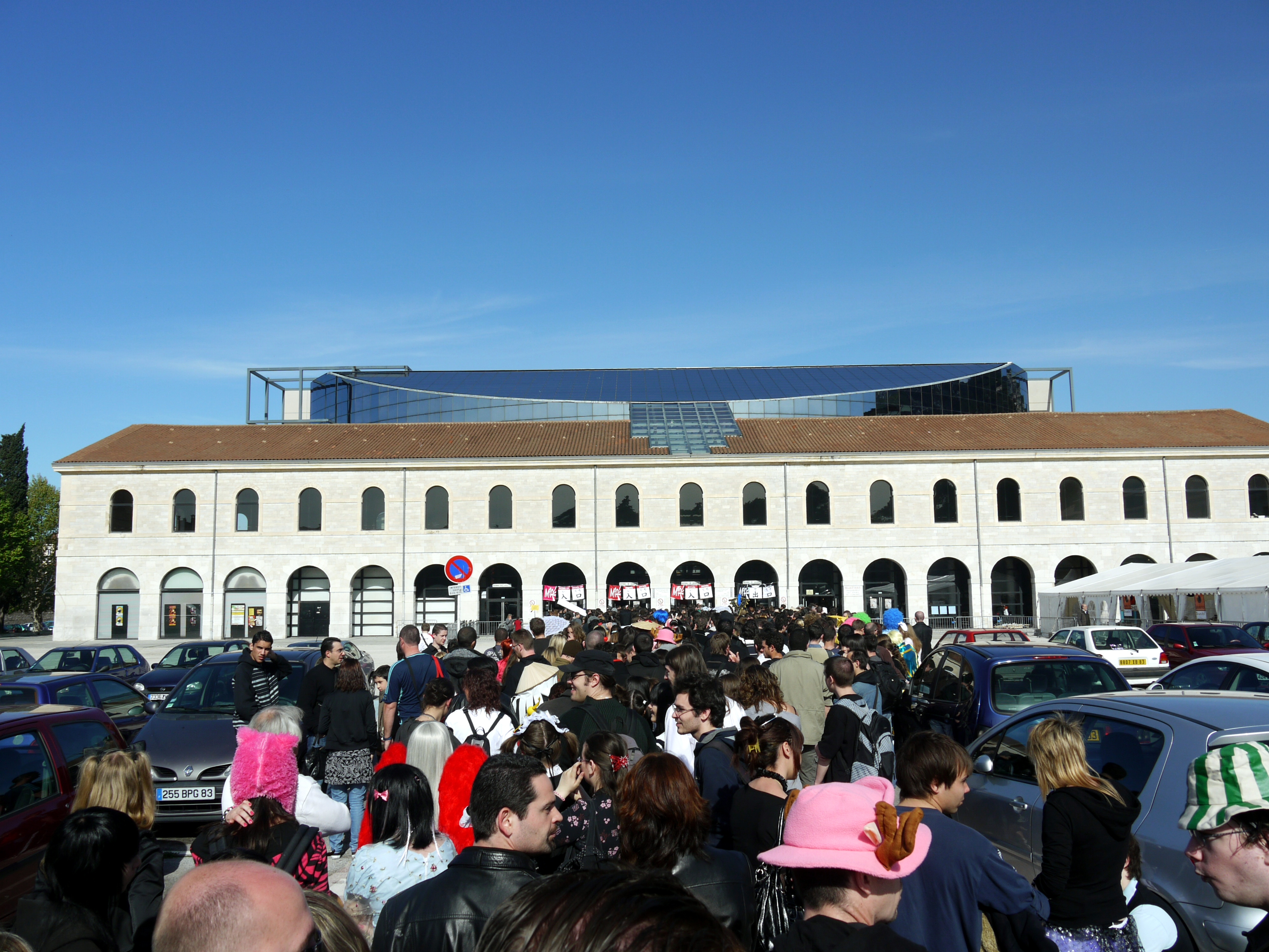 Waiting queue for the Mang'Azur Festival at the Zenith of Toulon in 2009.